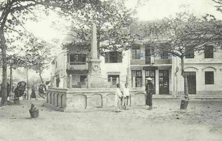 Thành phố Hải Dương thời Pháp thuộc